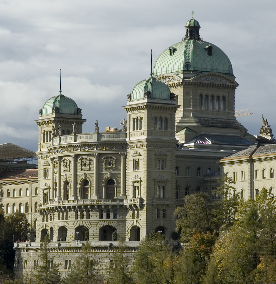 The Swiss Federal Palace (Bundeshaus) in Berne. View from across the Aare River.